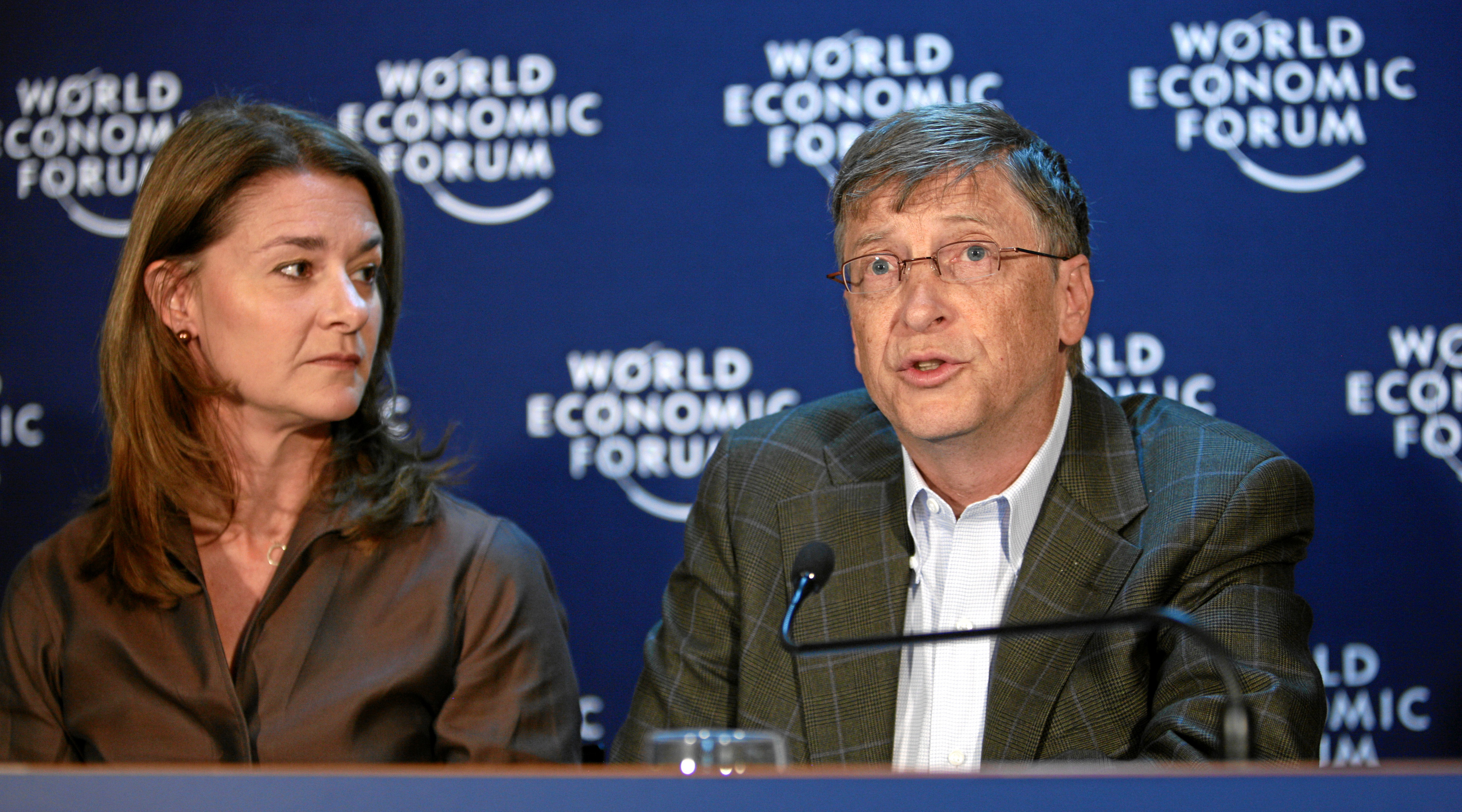 DAVOS-KLOSTERS/SWITZERLAND, 30JAN09 - Melinda French Gates and Bill Gates speak during the 'Gates Foundation' press conference at the Annual Meeting 2009 of the World Economic Forum in Davos, Switzerland, January 30, 2009. Copyright by World Economic Forum by Remy Steinegger